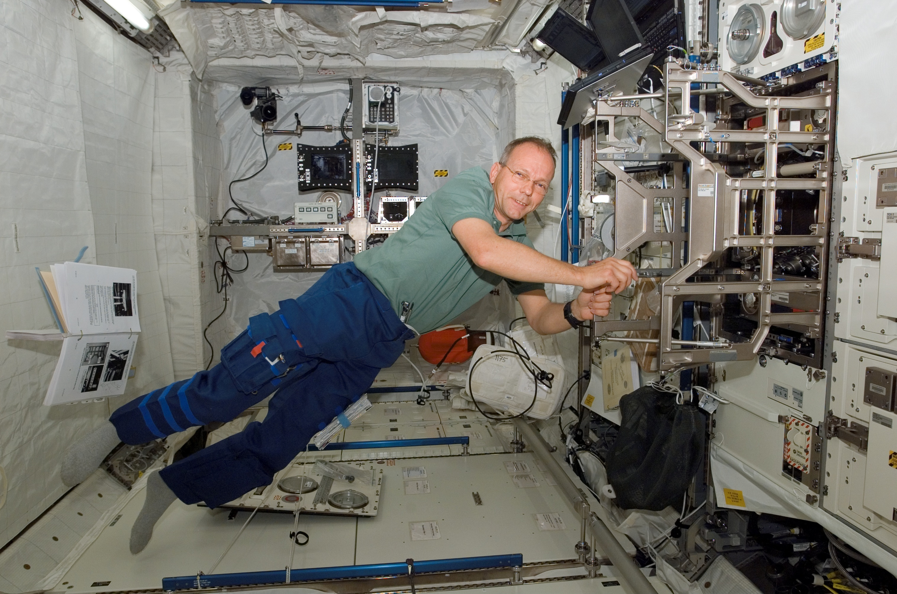 European Space Agency astronaut Hans Schlegel, STS-122 mission specialist, continues work aimed toward readying the agency's new Columbus laboratory for duty aboard the International Space Station.